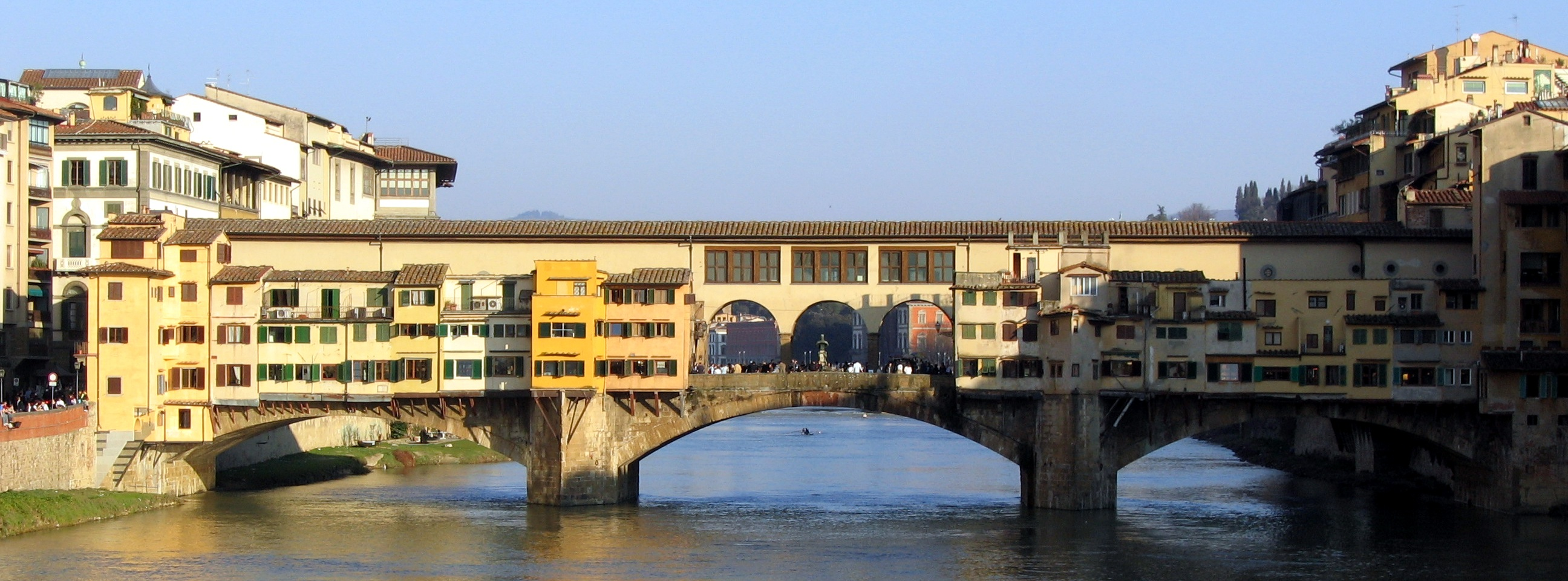 Ponte Vecchio, Florence